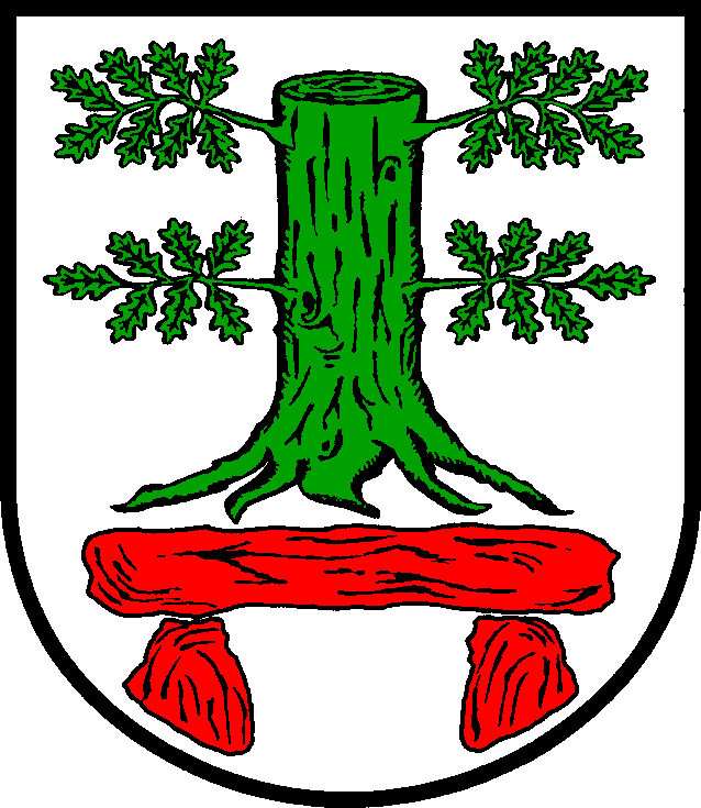 Coat of arms of the municipality Köhn in Schleswig-Holstein, Germany.